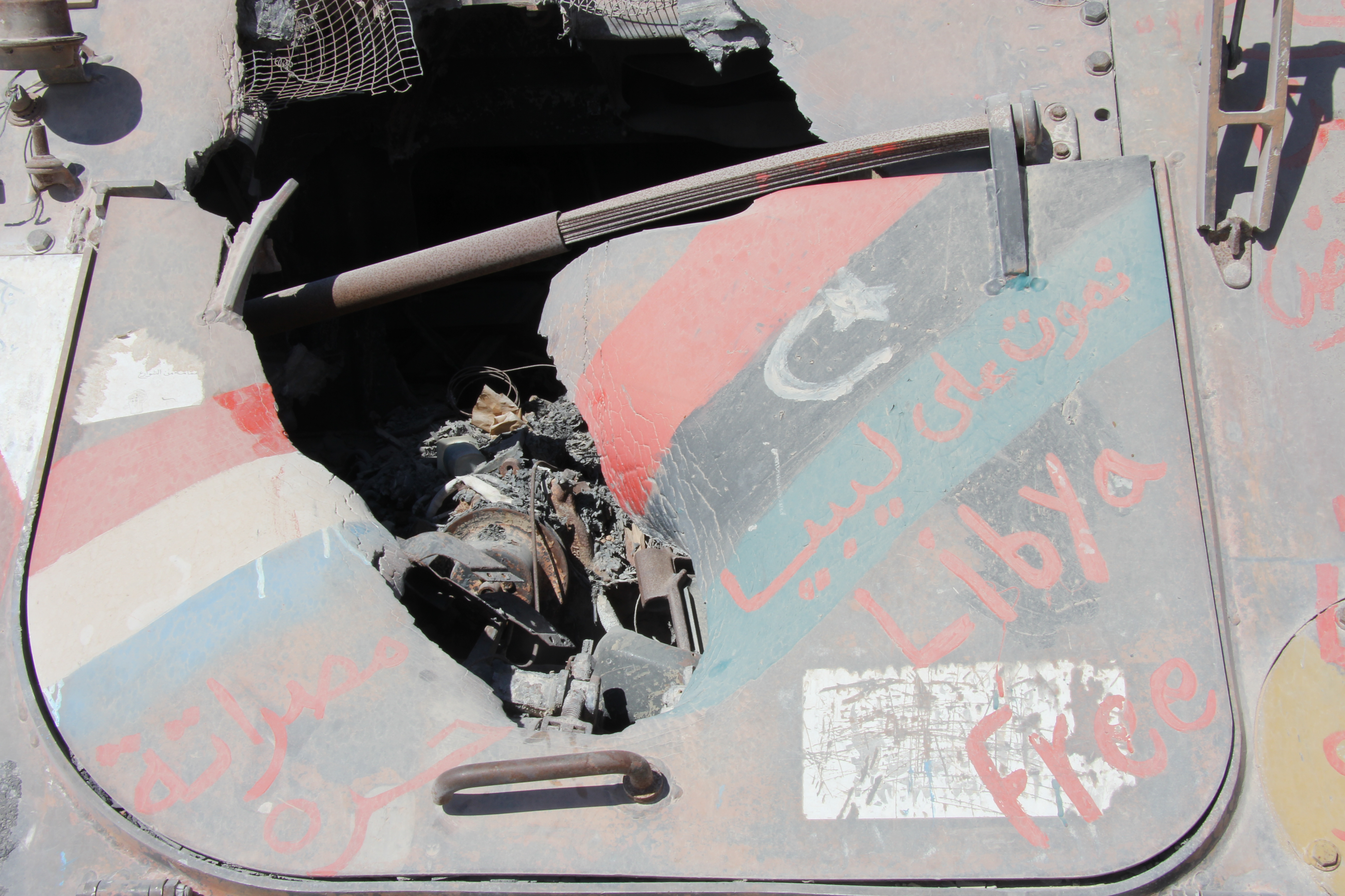 Tanks outside of Misrata (5)